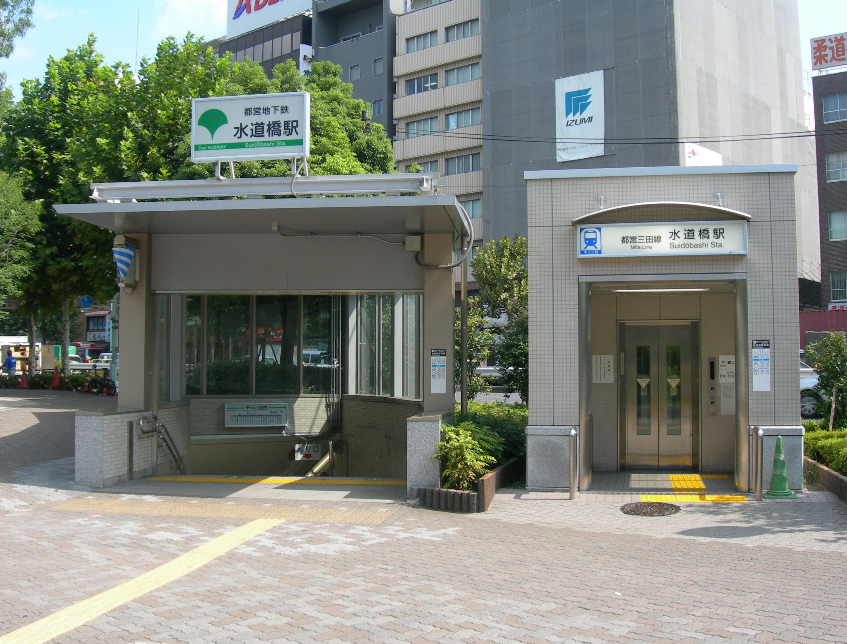 Suidobashi Station of subway Toei Mita Line which Tokyo Traffic Bureau administers.